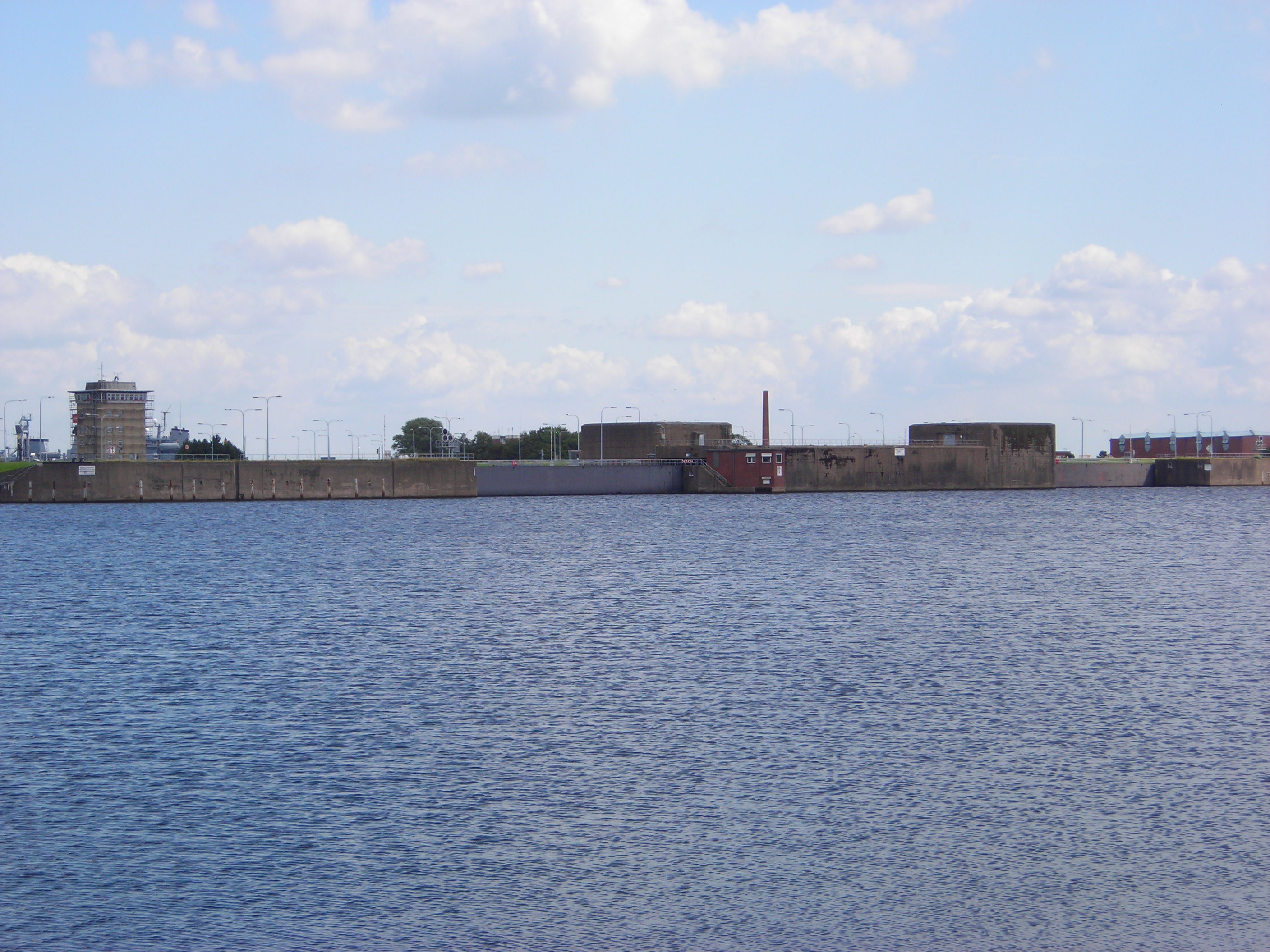 The inner entrance of the Wilhelmshaven harbour lock Vierte Einfahrt ("Fourth Entrance") with the control tower at the left side of the picture. The doors of both chambers are closed